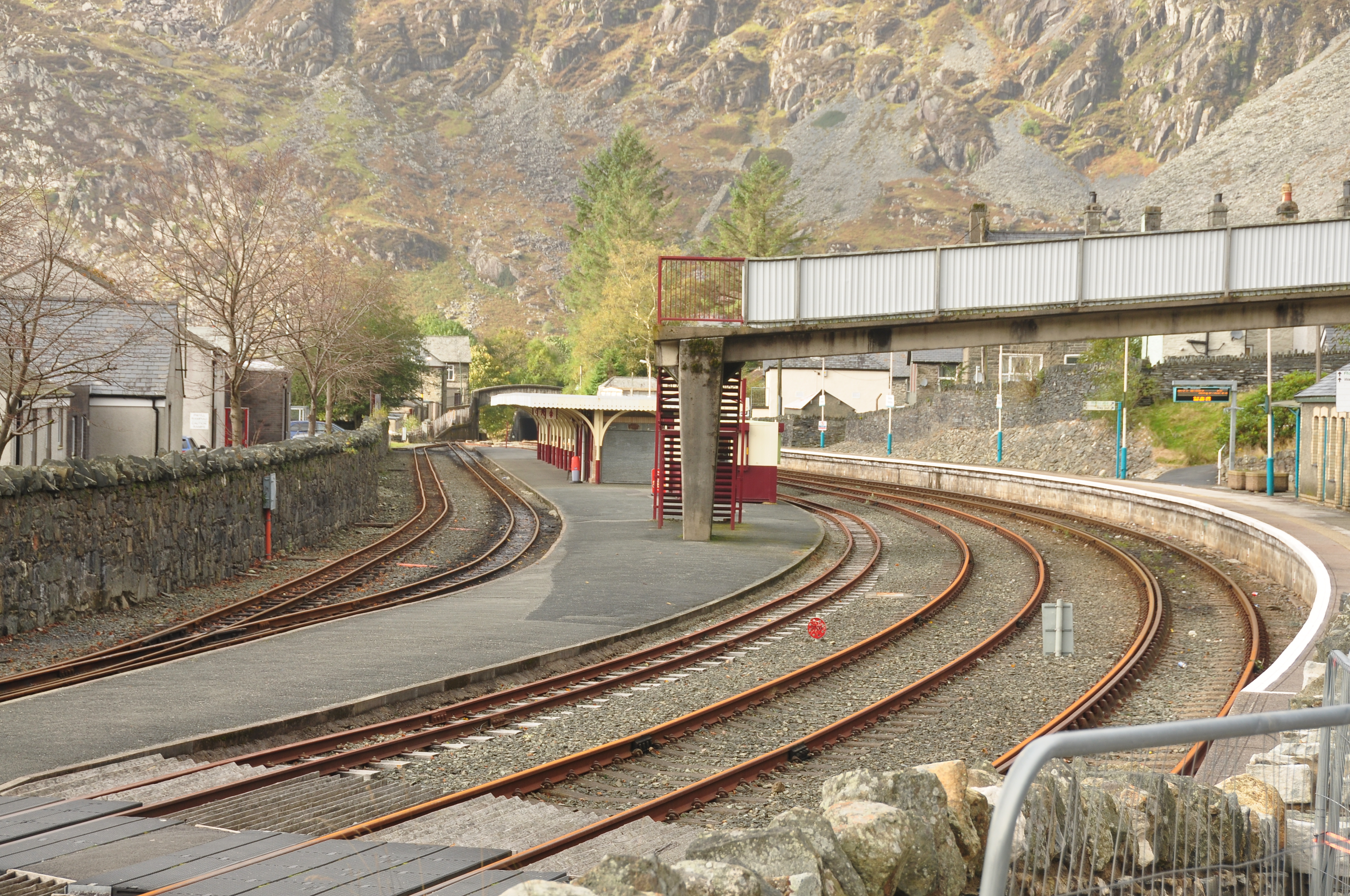 Blaenau Ffestiniog railway station